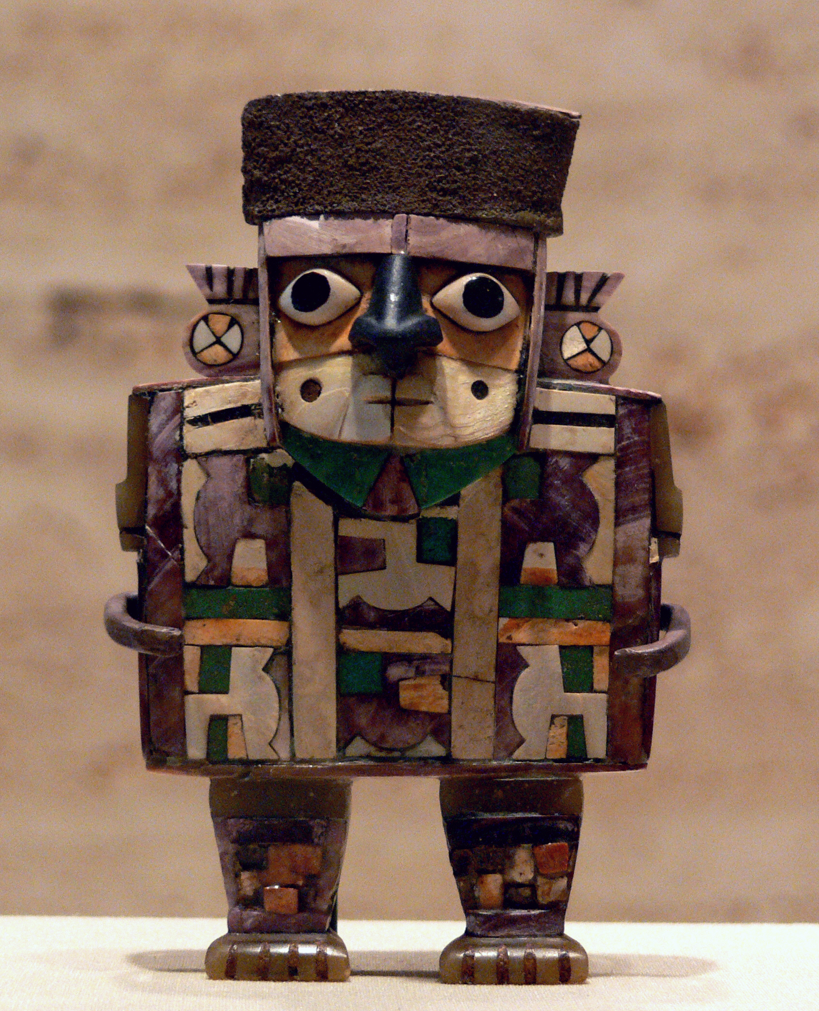 Standing Dignitary; c. A.D. 600–1000; Peru, South Coast, Huari Empire, Middle Horizon, c. 7th–11th century A.D.; Wood with shell-and-stone inlay and silver; 10.2 x 6.4 x 2.6 cm Kimbell Art Museum, Fort Worth, Texas; AP 2002.04